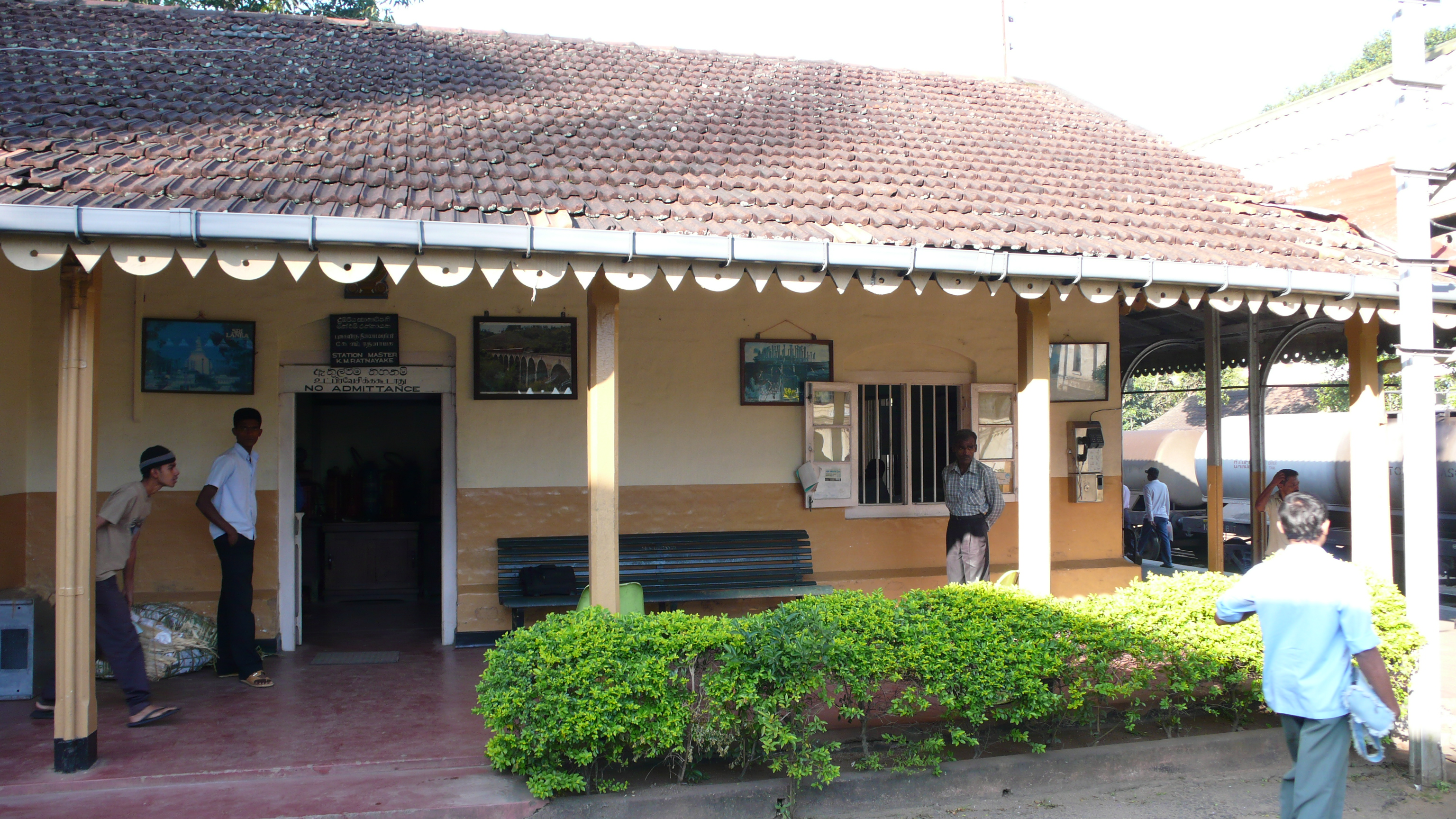 Old School Train Station / The most advanced thing in this train station was the little hand held solar calculator. If it wasn't for that you could have easily thought you were still living in the 1940's.